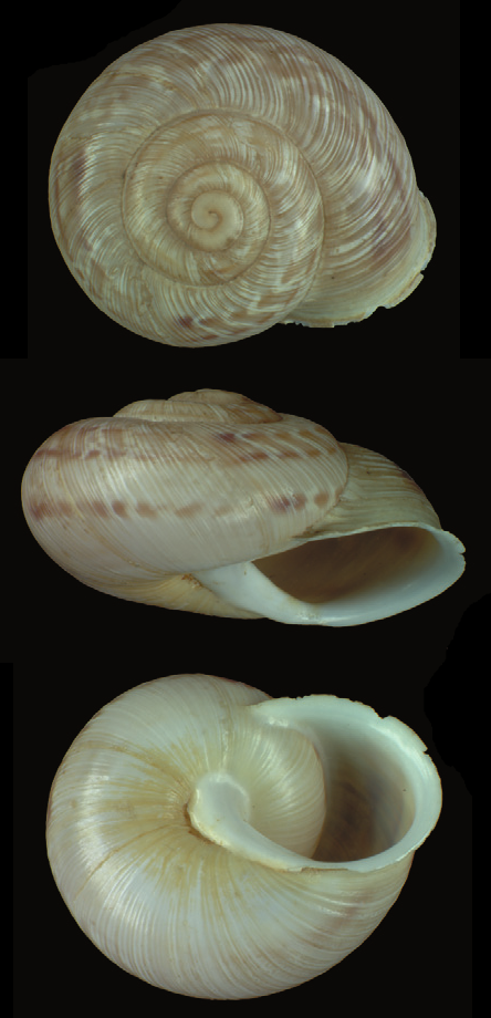 Photo of an apical, apertural and umbilical view of the shell of Assyriella guttata (Olivier, 1804), syntype MNHN (coll. Olivier), Urfa. The width of the shell is 32.3 mm.